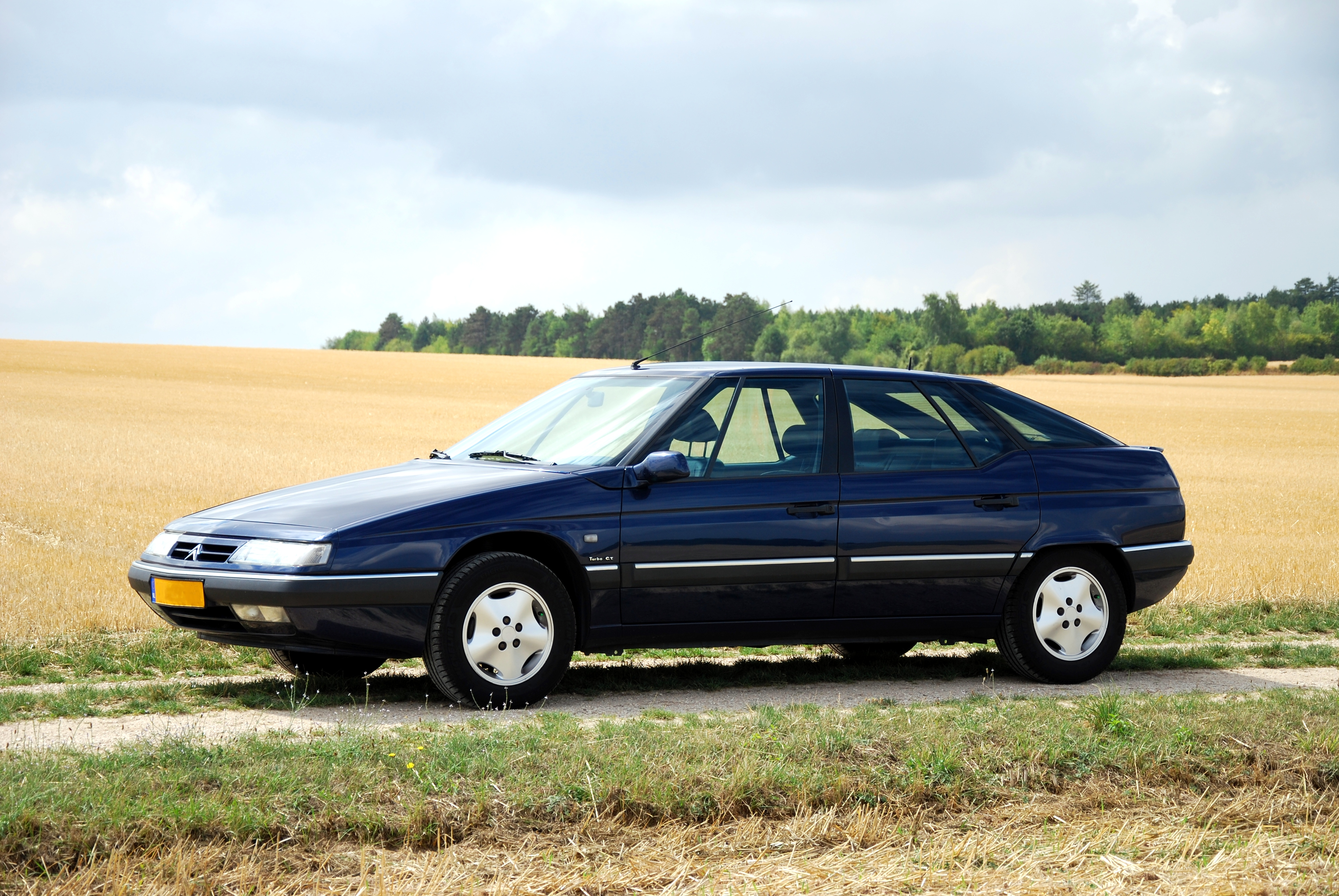 Citroen XM Turbo C.T. 1999